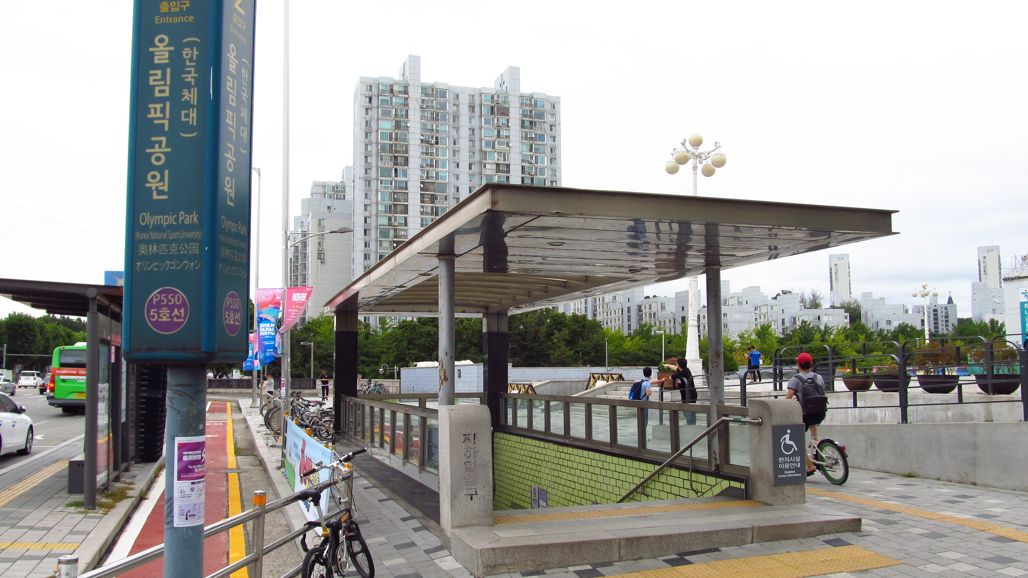 The no.2 entrance to Olympic Park Station on the Seoul Metro Line 5 in Songpa-gu, Seoul, Republic of Korea(South Korea)